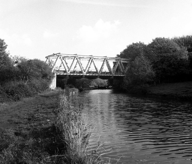 Bridge 211A, Leeds and Liverpool Canal. The nearby Esholt Sewage Works was a vast concern with facilities for extracting the lanolin (which originated in wool grease) from the waste water. There was a large light railway system (almost all standard gauge), of which one line crossed the canal here to reach some settling tanks on the south side. When the railway was eventually dismantled, the bridge remained and has found some use by walkers. The head of Three Rise locks (Nos. 20 to 18) can just be seen in the distance.